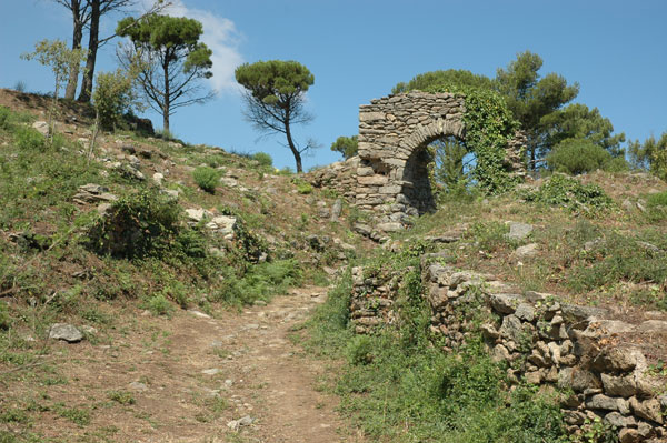 Santa Creu de Rodes wall gate. Port de la Selva, Catalonia, Spain